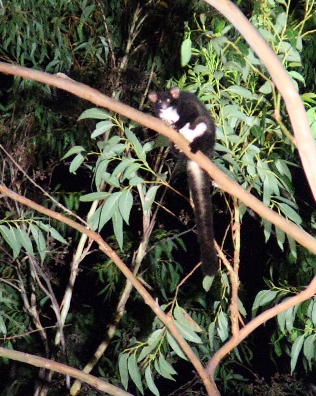 A greater glider